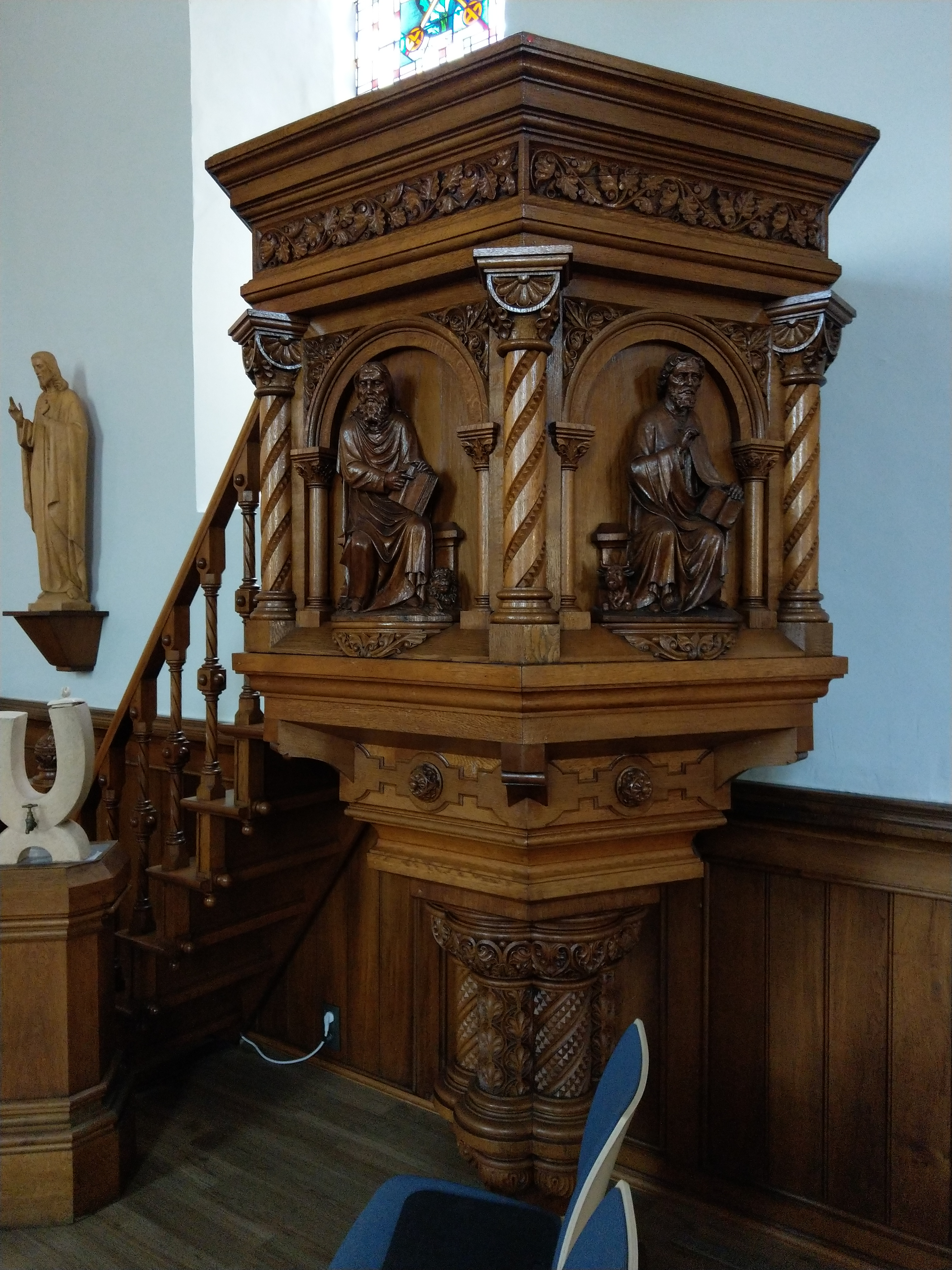 History and date, see category.